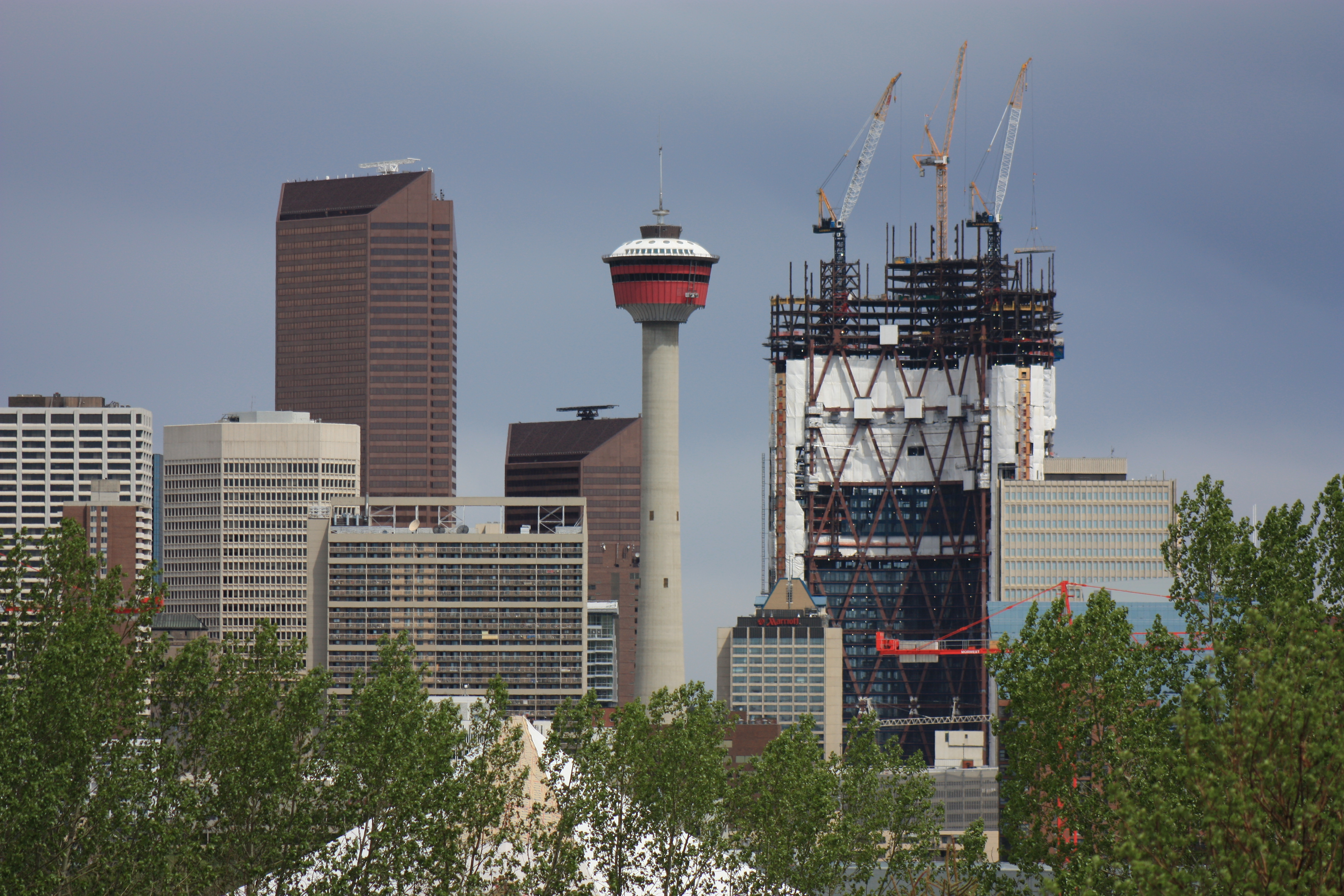 Construction of the The Bow in May 2010